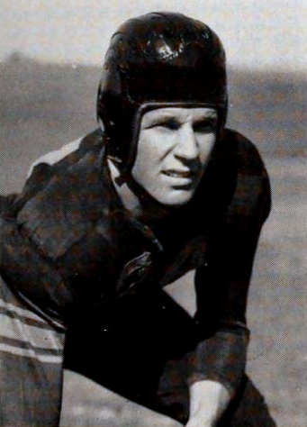 Joe Blalock